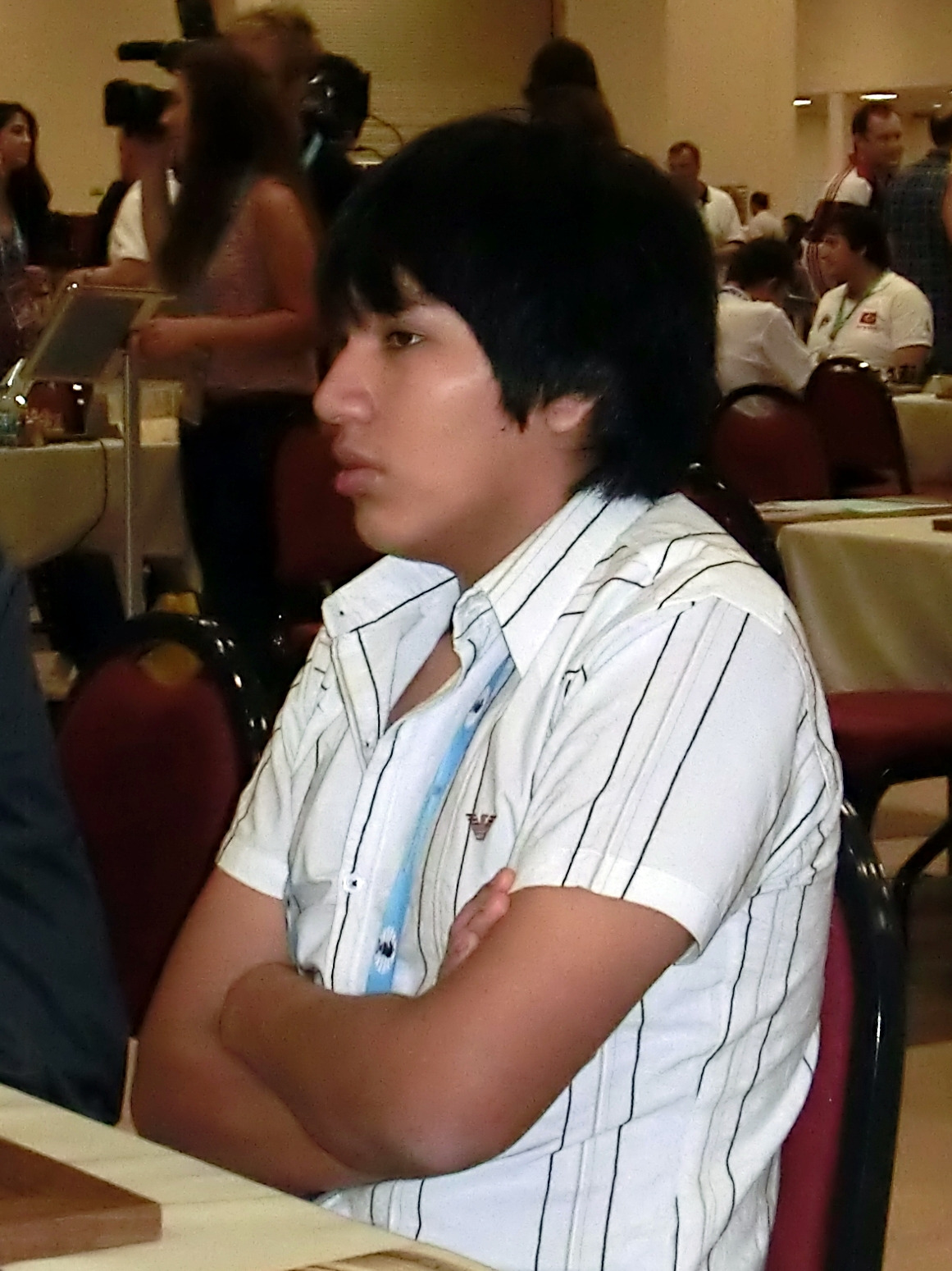 Jorge Cori Tello, chess grandmaster from Peru